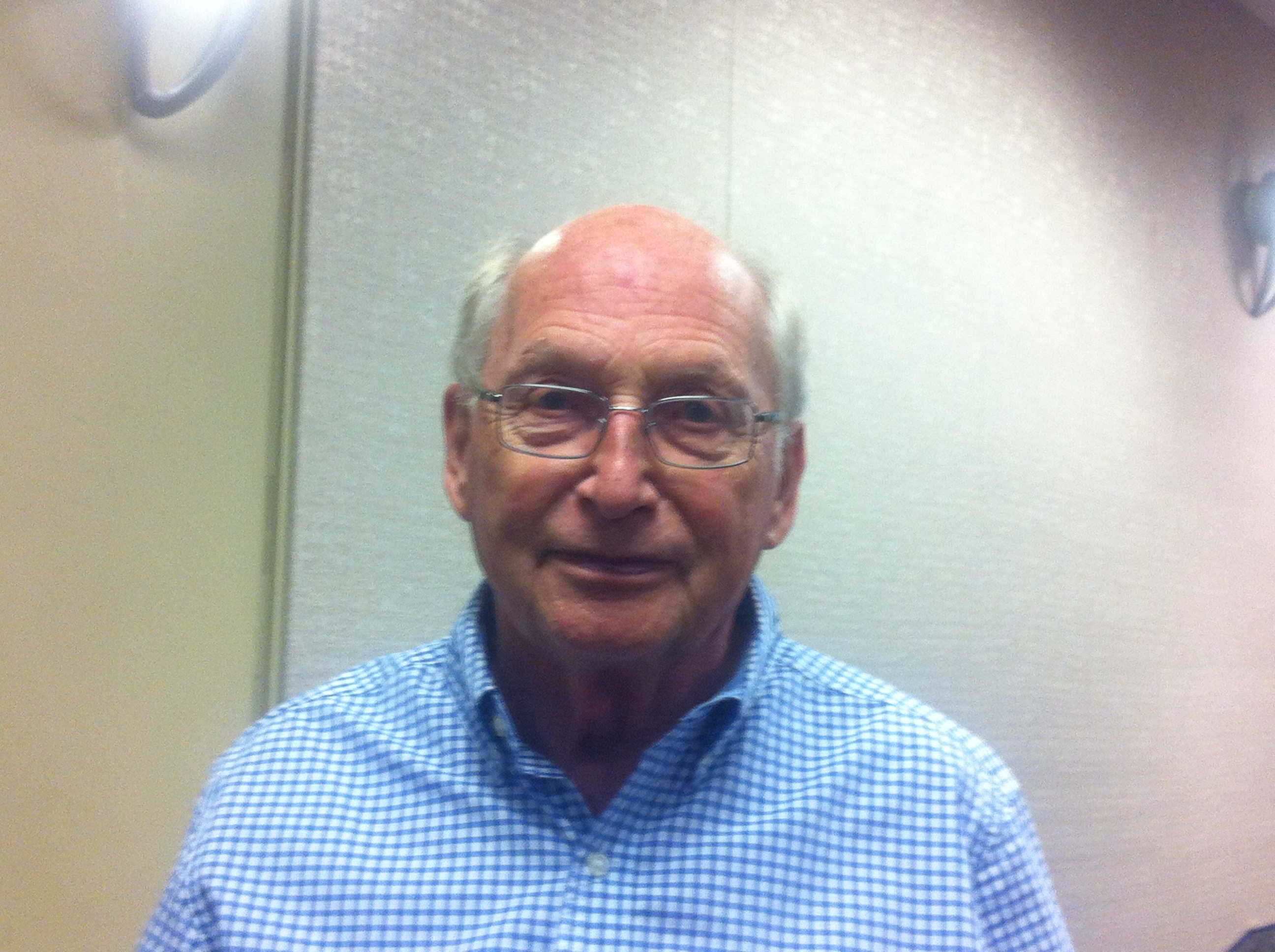 Paul Schupp, Hoboken, NJ, Stevens Institute